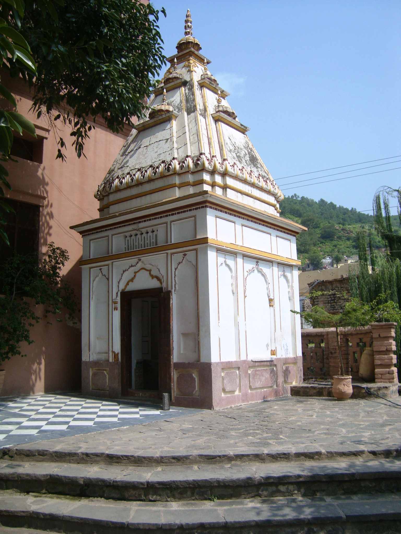 Saidpur Village This is a photo of a monument in Pakistan identified as the ICT-3